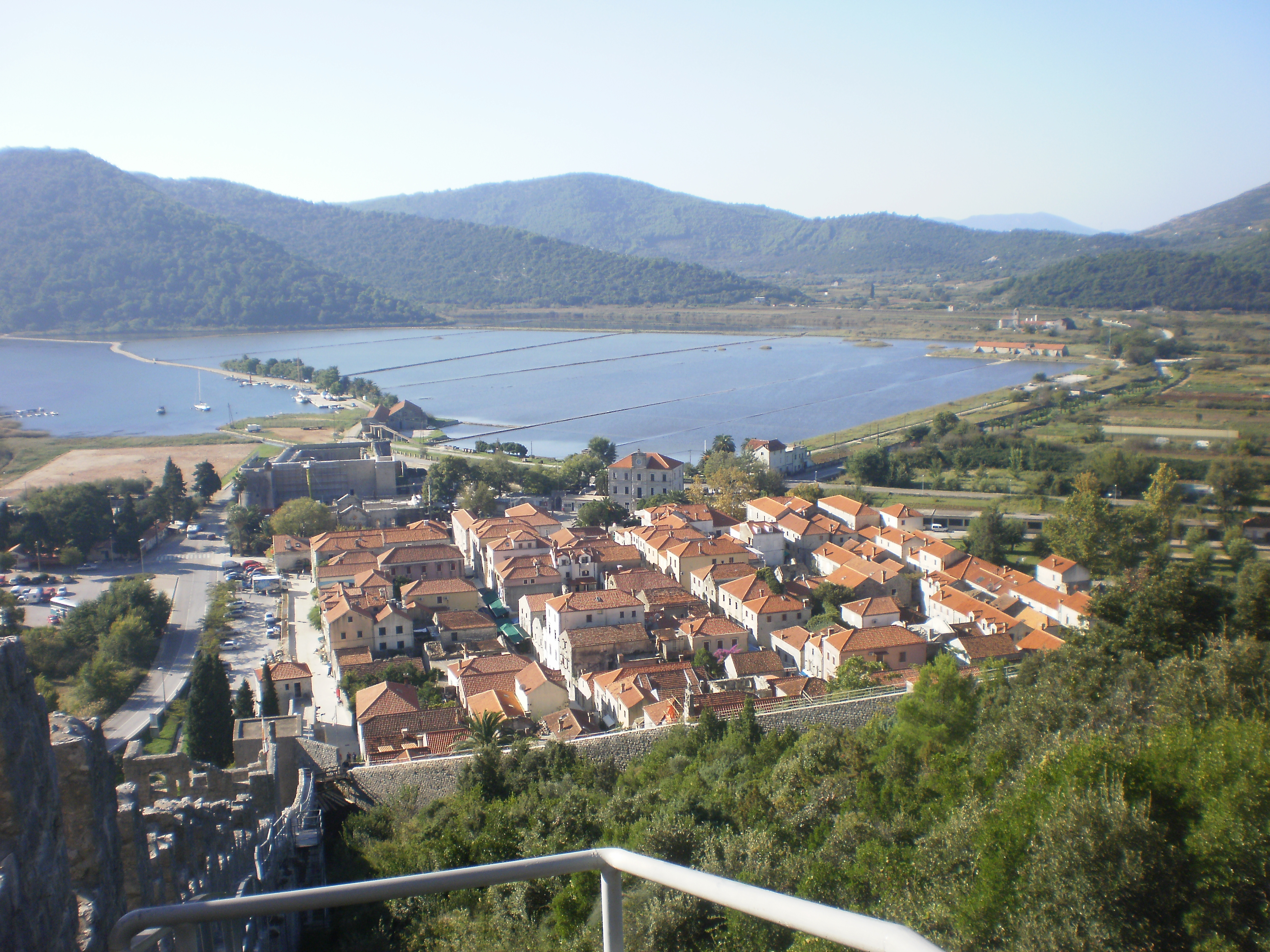 Ston and salt works OLYMPUS DIGITAL CAMERA